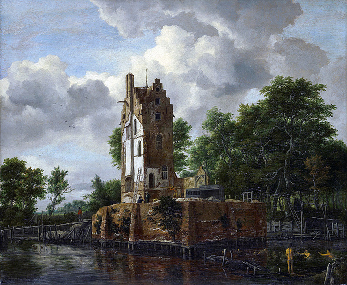 The Huis Kostverloren on the Amstel